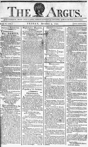 From: The Argus, published by John Howel Further information: American Antiquarian Society. Catalog.